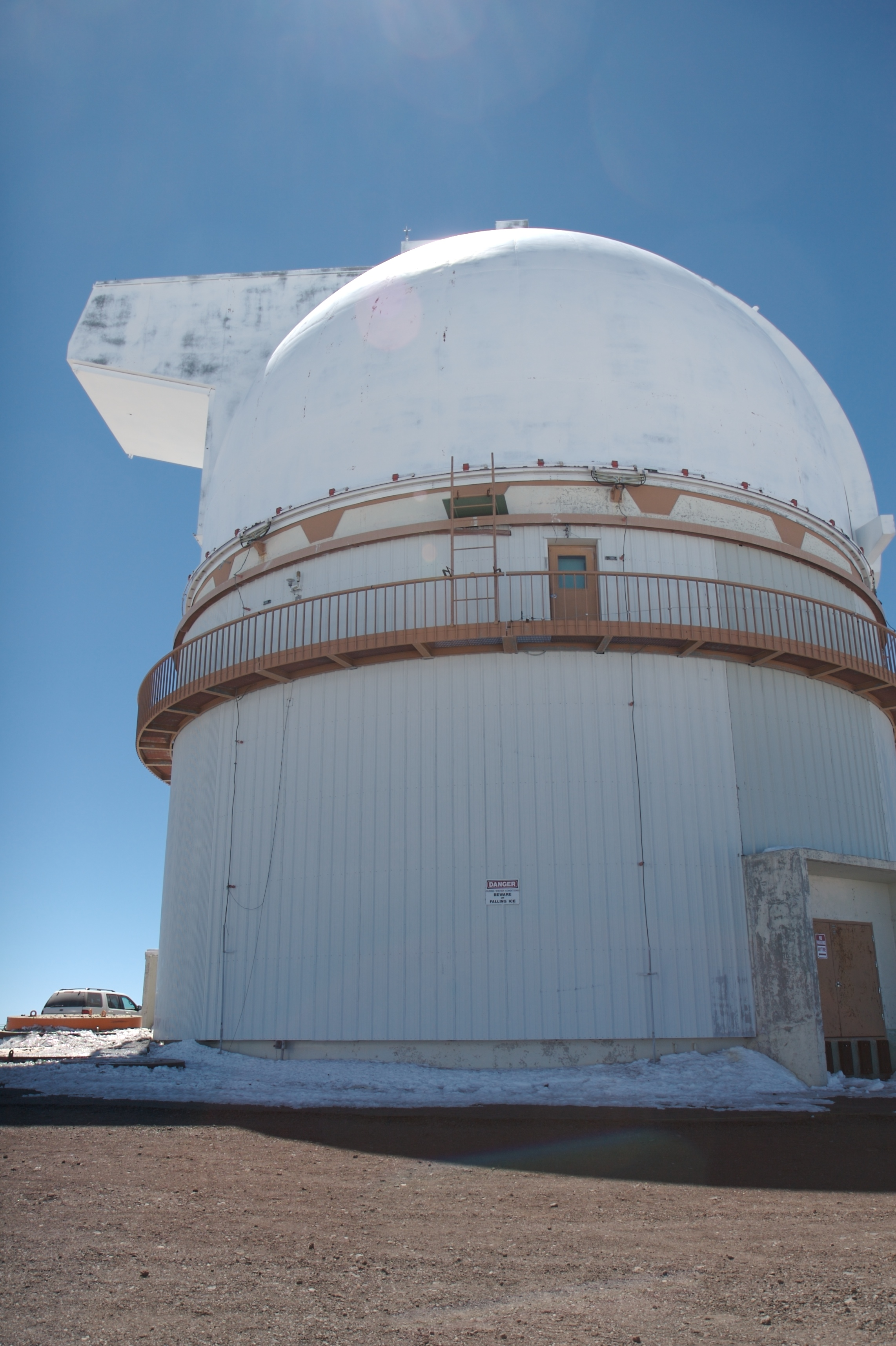 University of Hawaii 2.2m telescope.